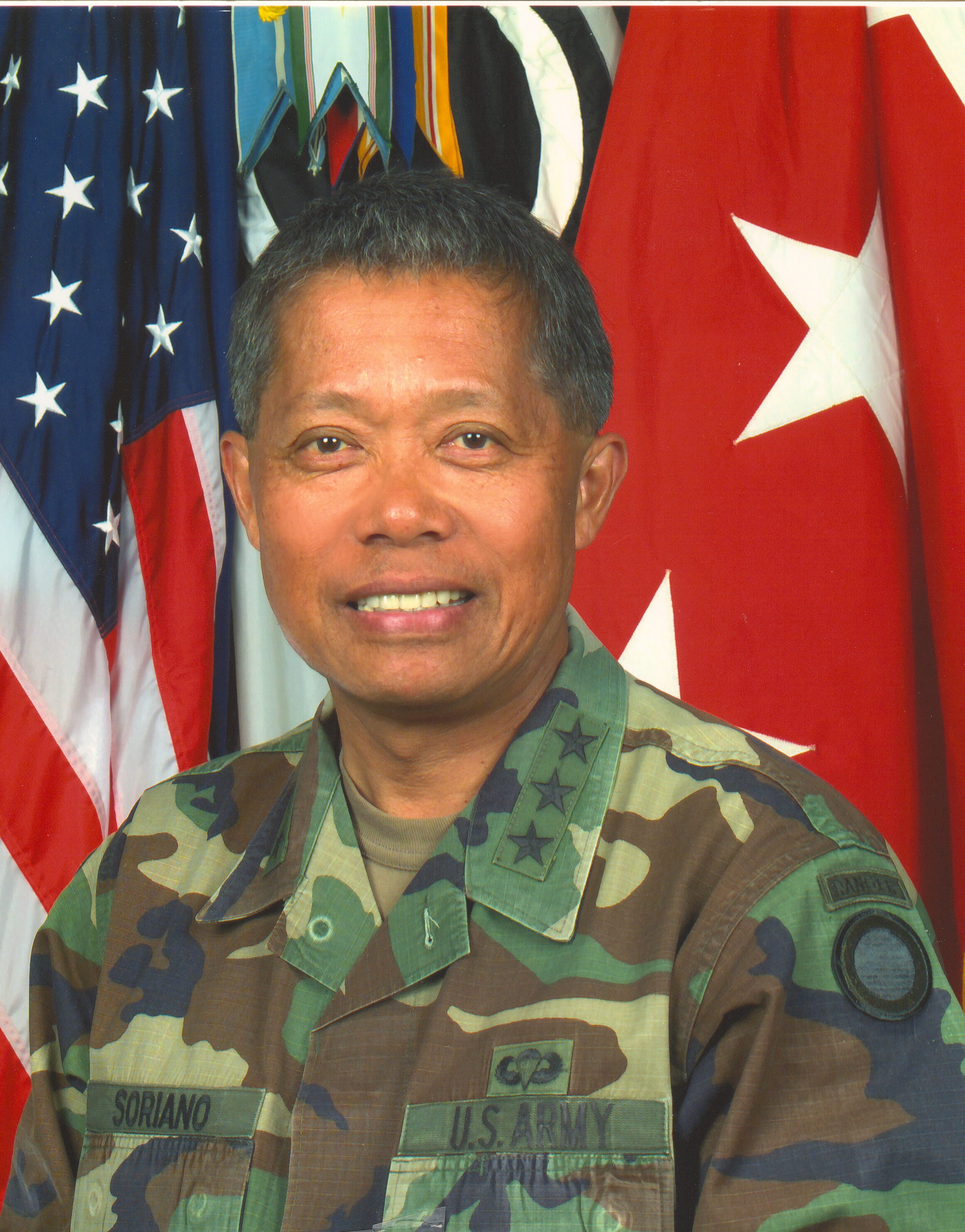 Soriano in BDUs